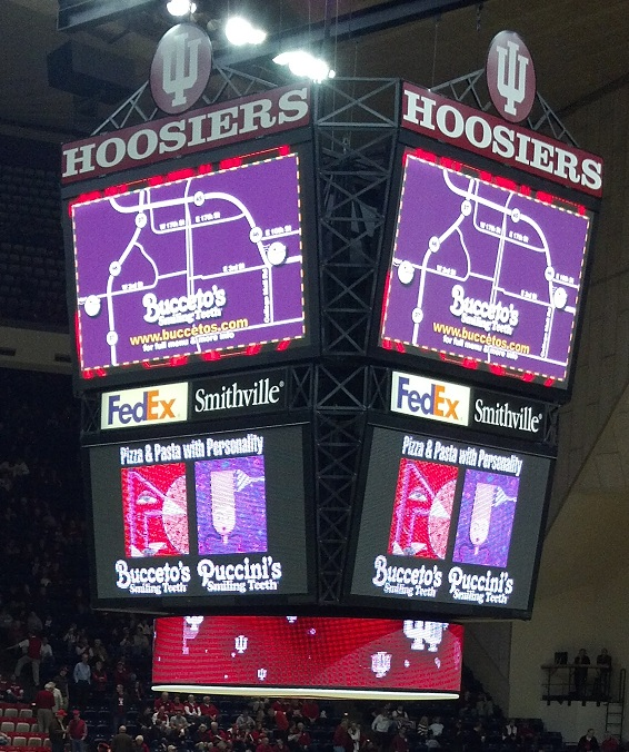 The main scoreboard in Assembly Hall on the campus of Indiana University, Bloomington, Indiana.